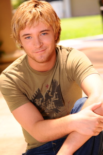 Michael Welch, American actor